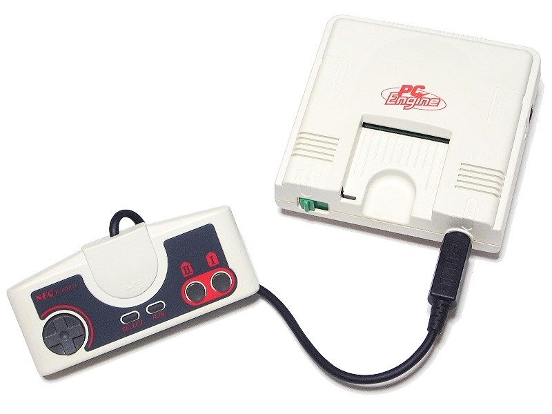 PC Engine (PI-TG001) with controller (PI-PD001).